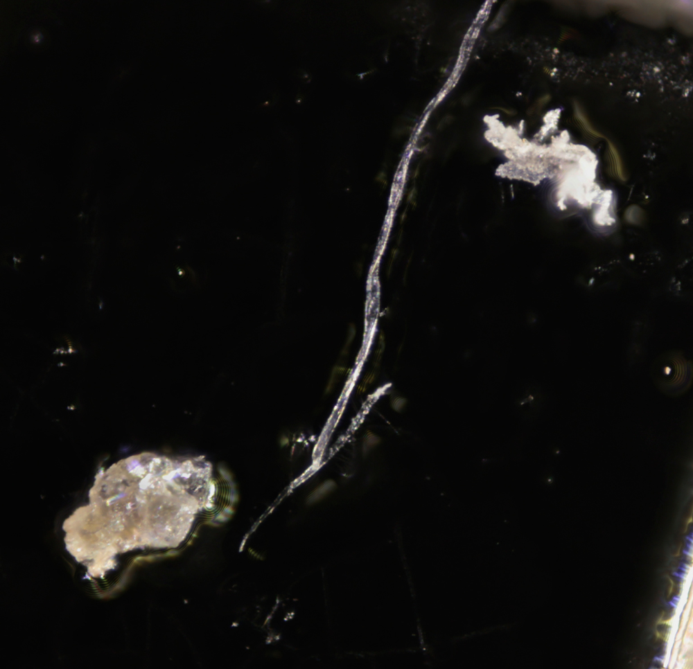 Locality: Great Fissure Eruption, Tolbachik Volcano, Far Eastern Region, Russian Federation Size: 0.2 × 0.2 × 0.2 cm Description: Two small (0.25 and 0.20 mm) aggregates of alarsite crystals from this incredible volcano with more than 100 Type Locality species. Alarsite is a extremelly rare aluminum arsenate AlAsO4. Analyzed. The mineral occurs in the fumarolic deposits of the Great Tolbachik fissure extrusion, in the SE of the Kamchatka Peninsula, and it is associated with very rare species like langbeinite, fedotovite, kluychevskite, lammerite, etc.